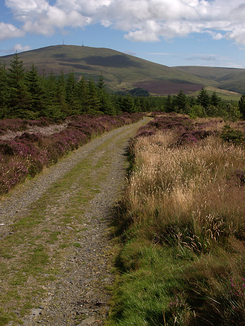 Forestry road, Tholt-y-Will. Isle of Man. The forestry road leading from the Druidale road through Tholt-y-Will plantation to Sulby Glen. Looking towards Snaefell.